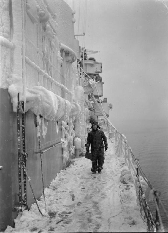 A member of crew on the snow covered deck of British light cruiser HMS Scylla on patrol in the North Atlantic.